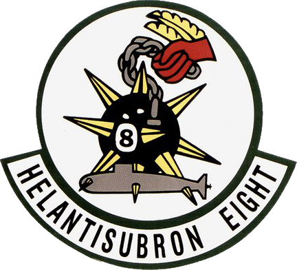 Insignia of the U.S. Navy Helicopter Anti-Submarine Squadron 8. History: 1 June 1956: established as HS-8 "Eightballers"; 31 December 1968: disestablished. 1 November 1969: established as HS-8 "Eightballers"; 28 September 2007: redesignated Helicopter Sea Combat Squadron 8 (HSC-8). Insignia approved: 26 September 1956.